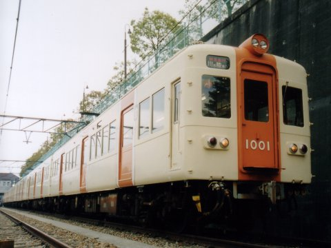 Nose Electric Railway 1000 series set 1001 at Nissei-Chuo Station as part of a farewell event